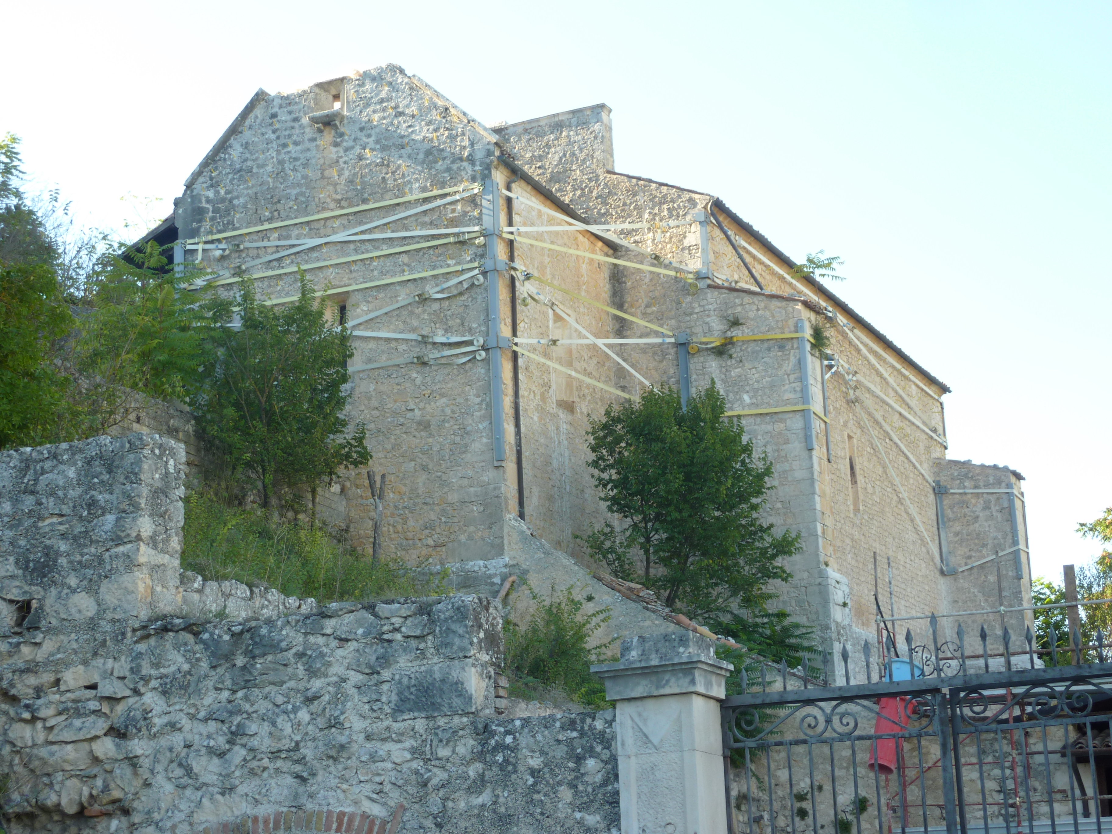 Fossa AQ: Chiesa di Santa Maria ad Cryptas